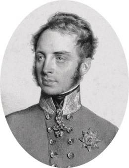 Archduke Ferdinand Karl Viktor of Austria-Este (1821–1849)